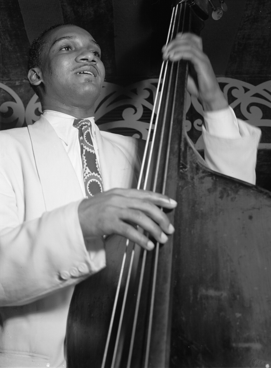 Portrait of Oscar Pettiford, Aquarium, New York, N.Y.